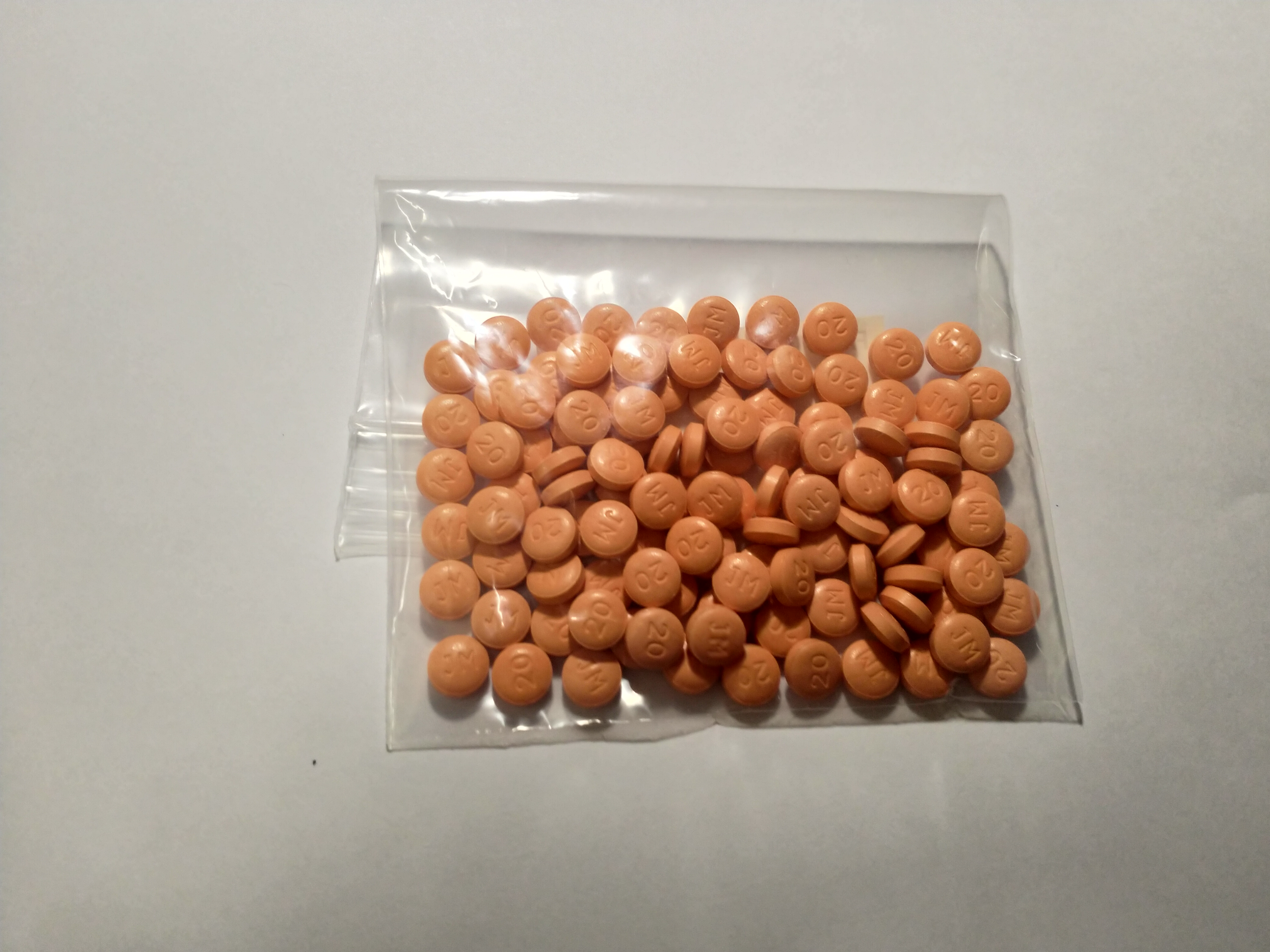 A sample of generic famotidine 20mg tablets obtained in Hong Kong